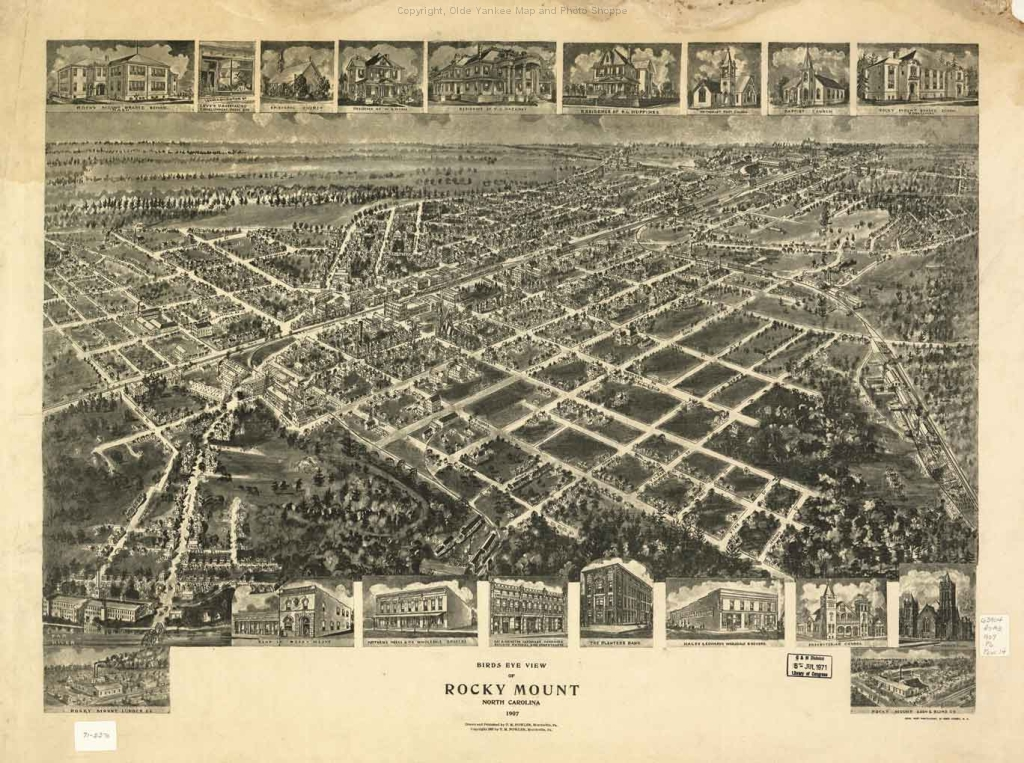 Rocky Mount, North Carolina panoramic map in 1907.